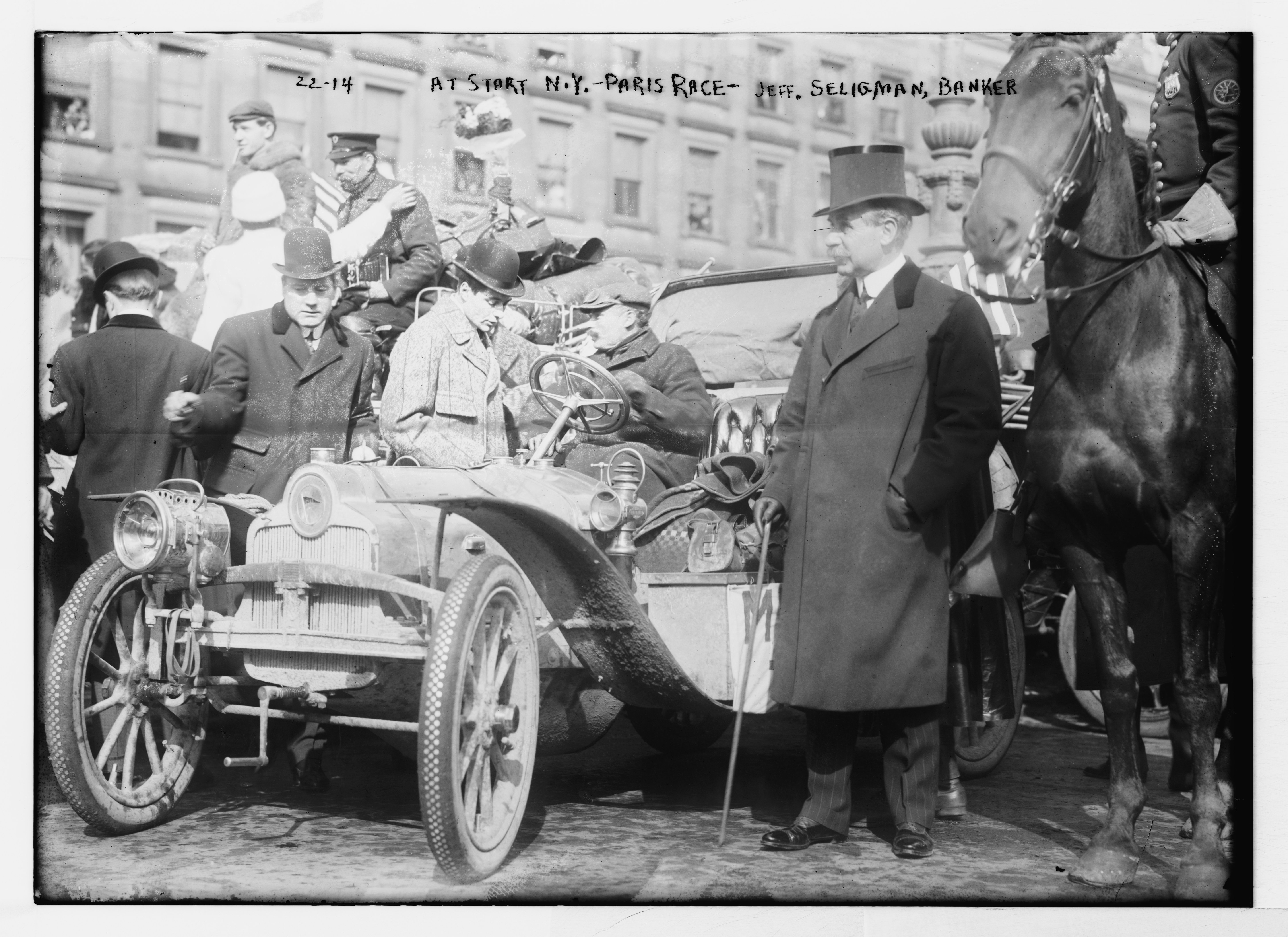 New York - Paris race grid: Jeff Seligman, banker, in his Sizaire & Naudin at the start of race, 12th February 1908, New York, Times Square Believed to be in Public Domain From Library of Congress, Prints and Photographs Collections. More on copyright: What does "no known restrictions" mean? ______________________ For information from Creative Commons on proper licensing for images believed to already be in the public domain please-- click here. By using this image from this site, you are acknowledging that you have read all the information in this description and accept responsibility for any use by you or your representatives. You are accepting responsibility for conducting any additional due diligence that may be necessary to ensure your proper use of this image. ________________ Public Domain. Suggested credit: Bain/Library of Congress via pingnews. Additional information from source: TITLE: New York - Paris race: Jeff. Seligman, banker, in a Sizaire & Naudin at the start of race, New York CALL NUMBER: LC-B2- 22-14[P&P] REPRODUCTION NUMBER: LC-DIG-ggbain-00122 (digital file from original neg.) No known restrictions on publication. MEDIUM: 1 negative : glass ; 5 x 7 in. or smaller. CREATED/PUBLISHED: 1908. NOTES: Forms part of: George Grantham Bain Collection (Library of Congress). Title from unverified data provided by the Bain News Service on the negatives or caption cards. Temp. note: Batch one loaded. TOPICS: New York FORMAT: Glass negatives. REPOSITORY: Library of Congress Prints and Photographs Division Washington, D.C. 20540 USA DIGITAL ID: (digital file from original neg.) ggbain 00122 CARD #: ggb2004000122